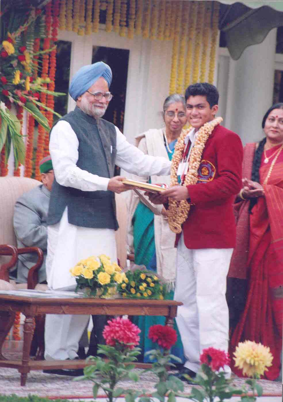 Sanmesh receiving National Bravery Award from Prime Minister of India Dr. Manmohan Singh